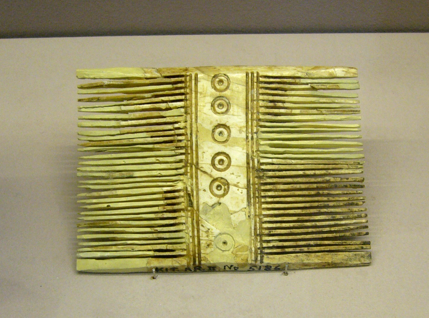 Ivory comb, where the main device used to clean one's hair and remove hair lice, bearing in mind the absence of shampoo or other hair-cleansing substances. Combs were also used to achieve the elaborate hairstyles depicted on sculpture and figurines. Late Bronze age III (1200-1050 B.C.). Larnaka, ancient Kition. Archaeological Museum in Nicosia, Cyprus